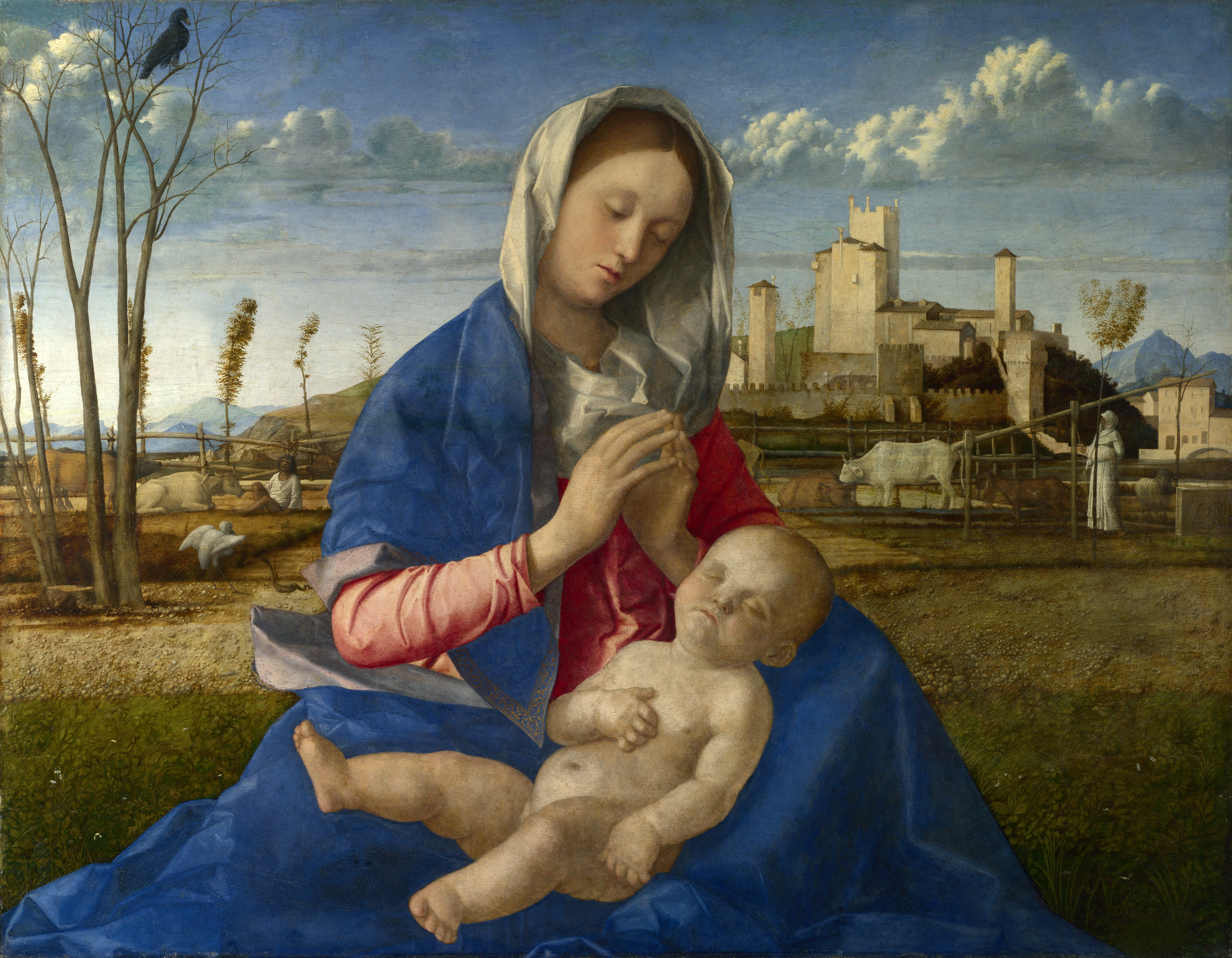 Madonna of the Meadow (Madonna del Prato) Oil on canvas, transferred from wood, 67 x 86 cm National Gallery, London Джованни_Беллини._Мадонна_на_лугу.__ок._1505._Лондон_НГ